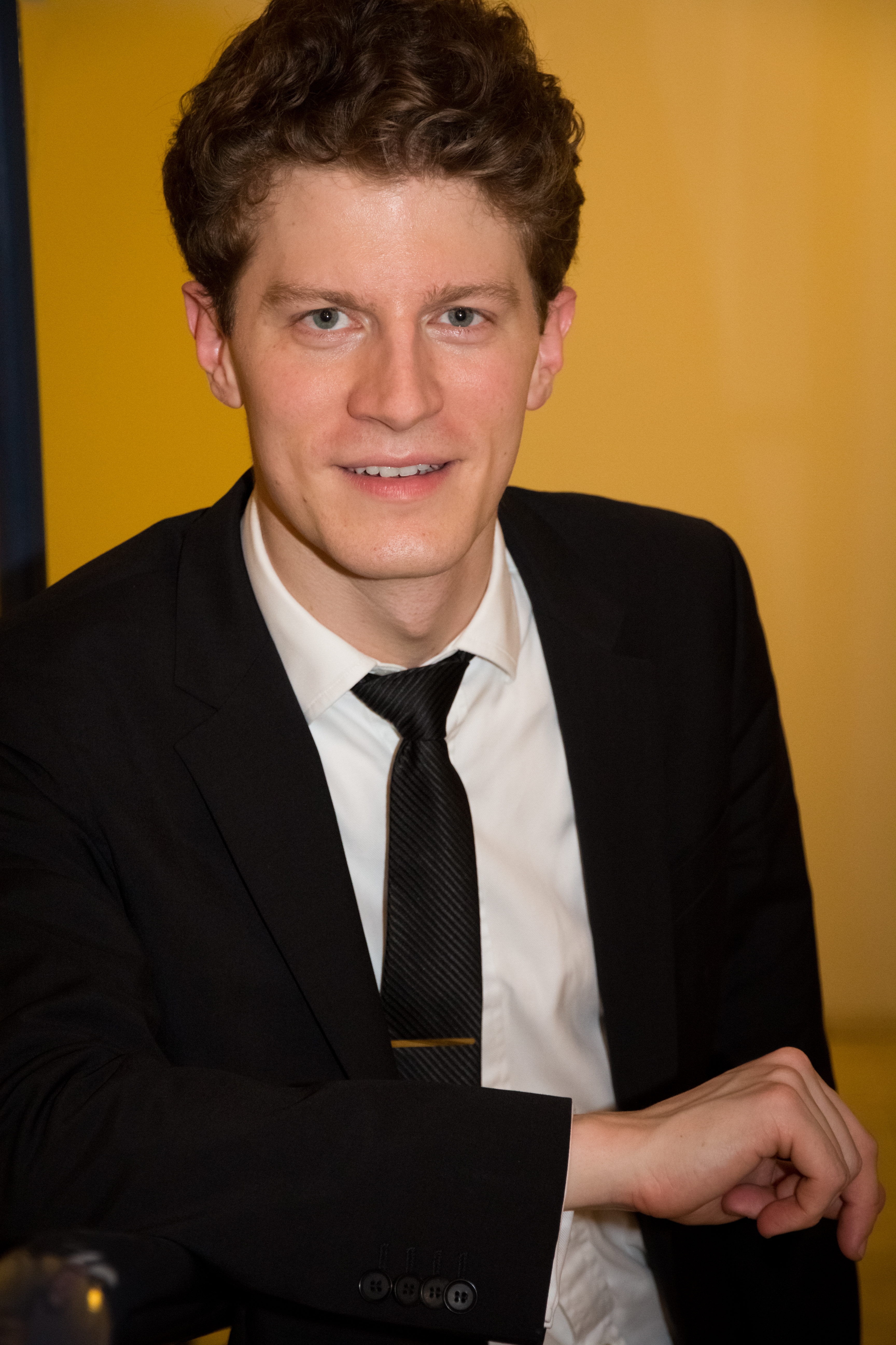 Alexander Krichel - 2015